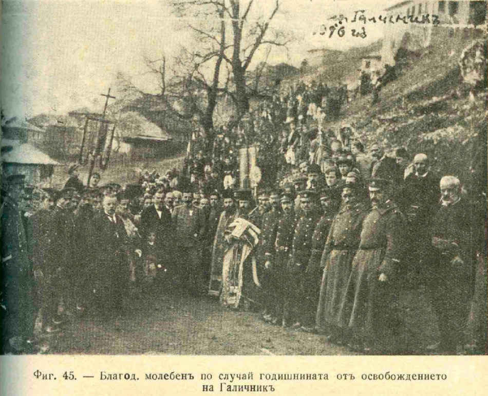 Galichnik Mass 1916